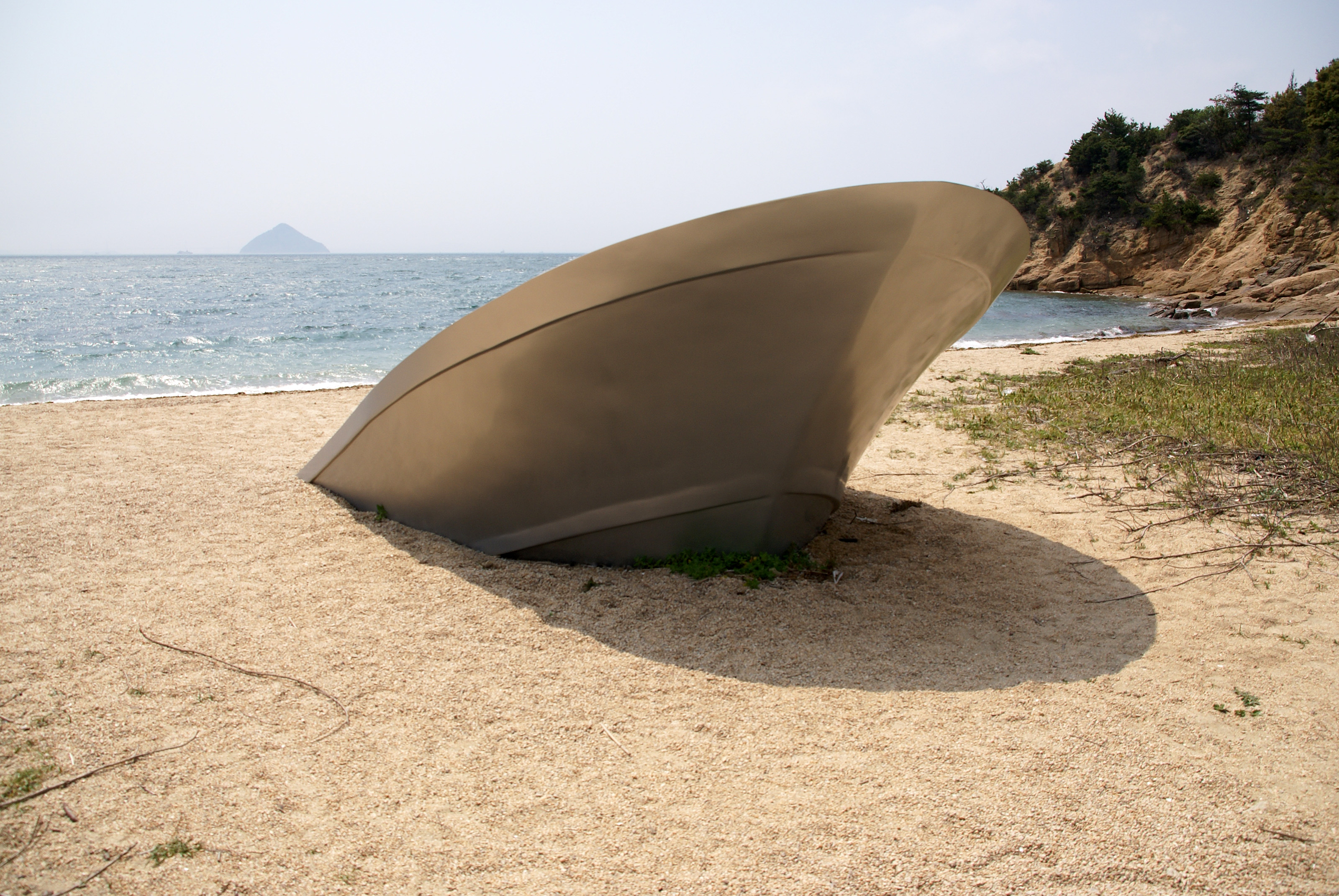 Shinro Ohtake "Shipyard Works: Cut Bow" at Naoshima, Kagawa prefecture, Japan